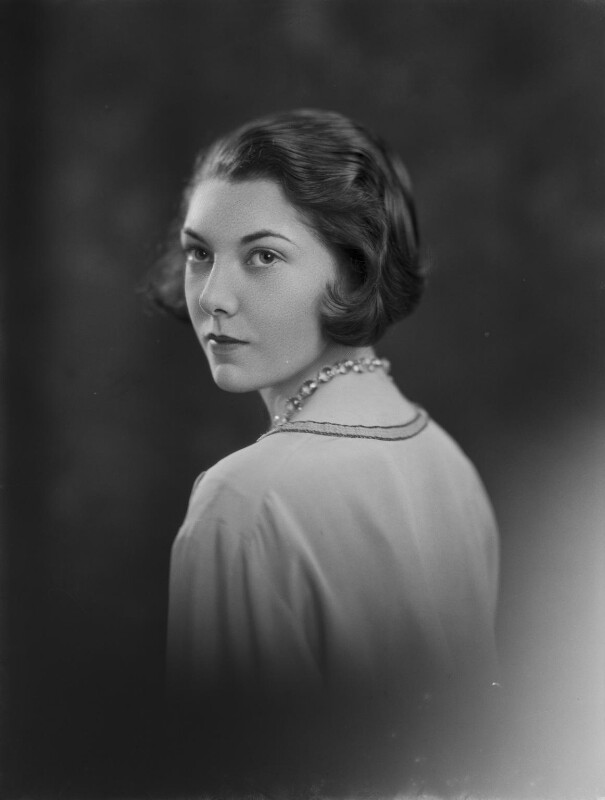 Wanda Holden by Lafayette (Lafayette Ltd) whole-plate film negative, 29 April 1929 Given by Pinewood Studios via Victoria and Albert Museum, 1989 Photographs Collection NPG x70053